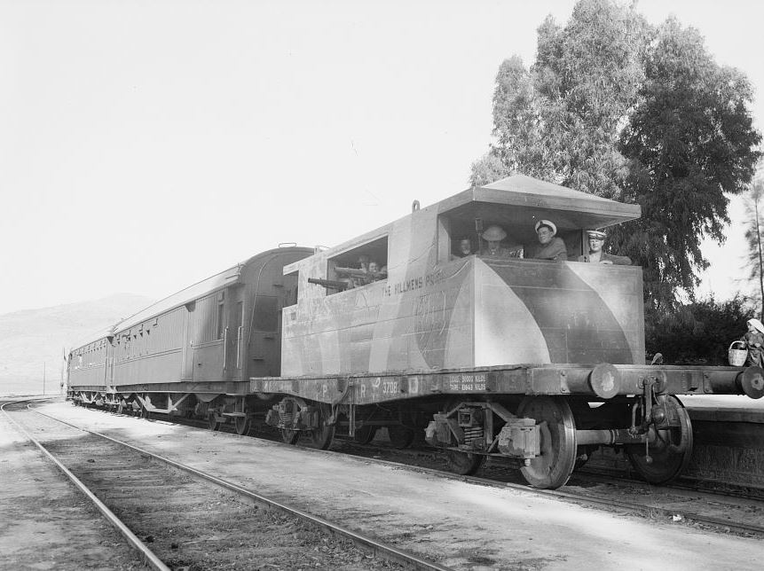 Palestine Railways passenger train with a concrete armoured coach built on a freight wagon underframe in 1936 in the Arab revolt. The armoured coach is now in the Israel Railway Museum in Haifa.